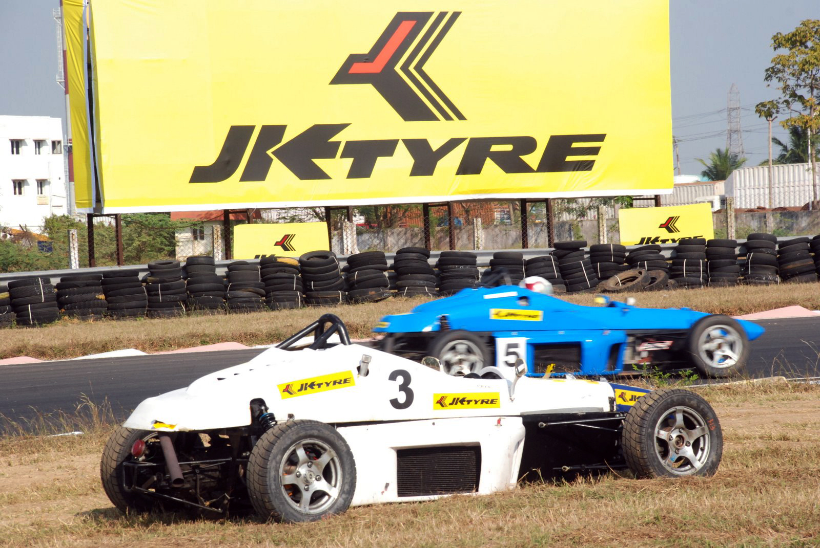 A Rams Racing Formula LGB HYundai at MMSC racetrack.